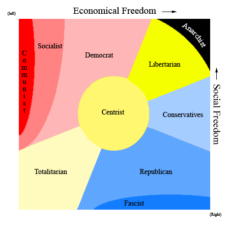 Diagram over ideological standpoints and the political labels associated